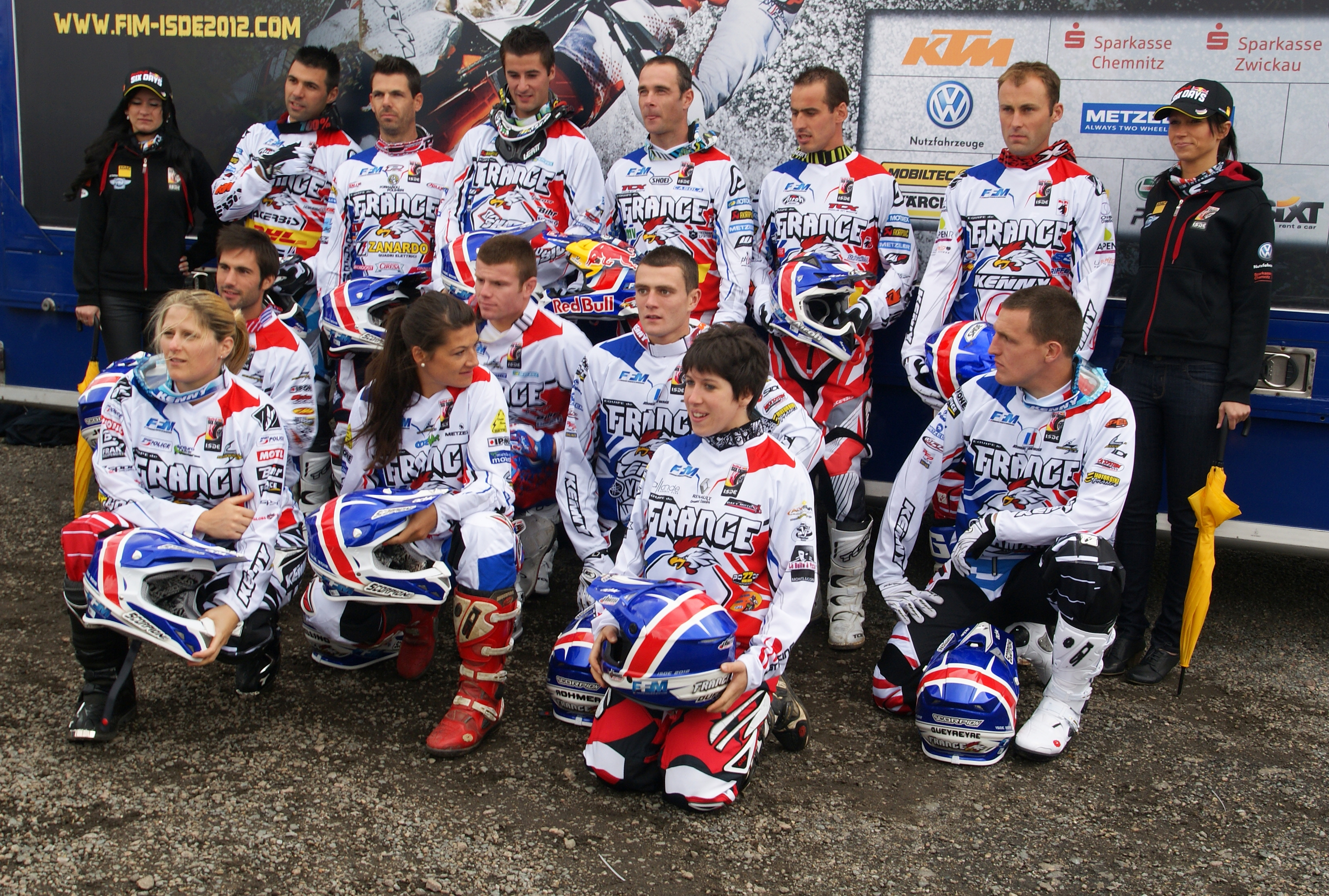 The making of this document was supported by the Community-Budget of Wikimedia Germany. 87. ISDE Red Bull Six Days 2012 National Teams France